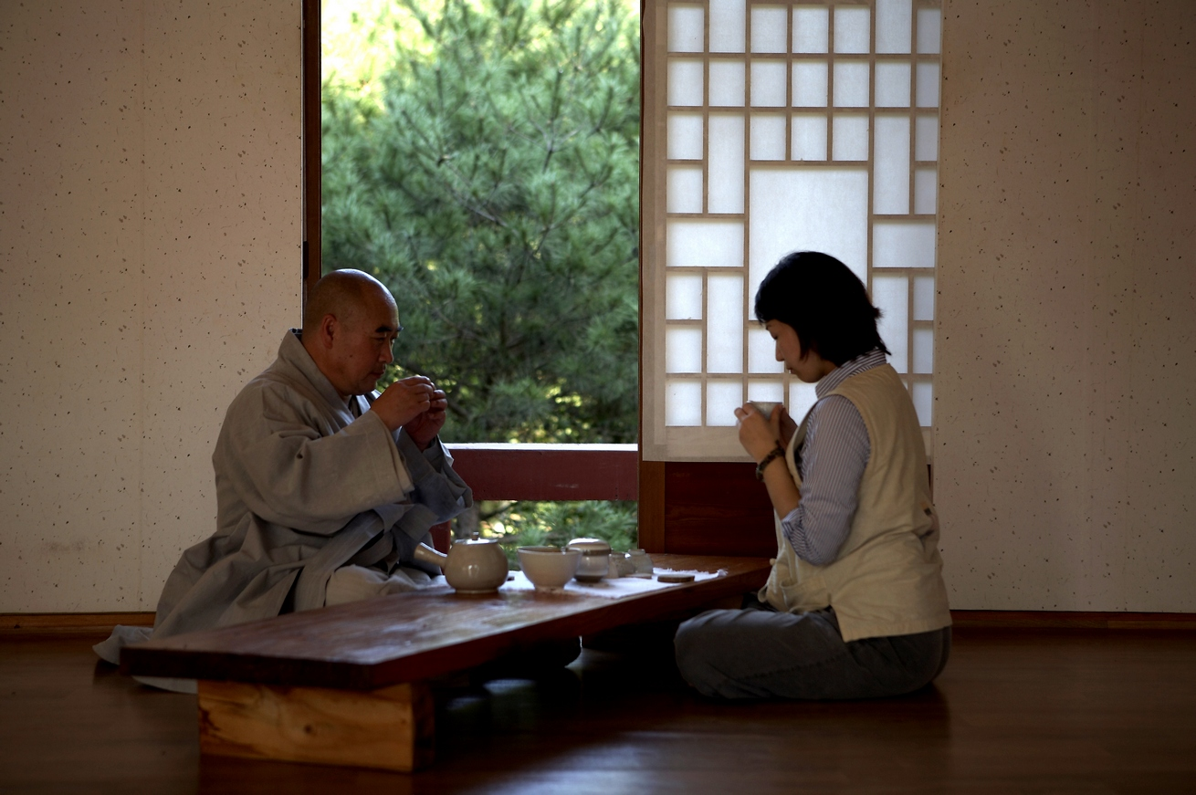 Magok temple templestay